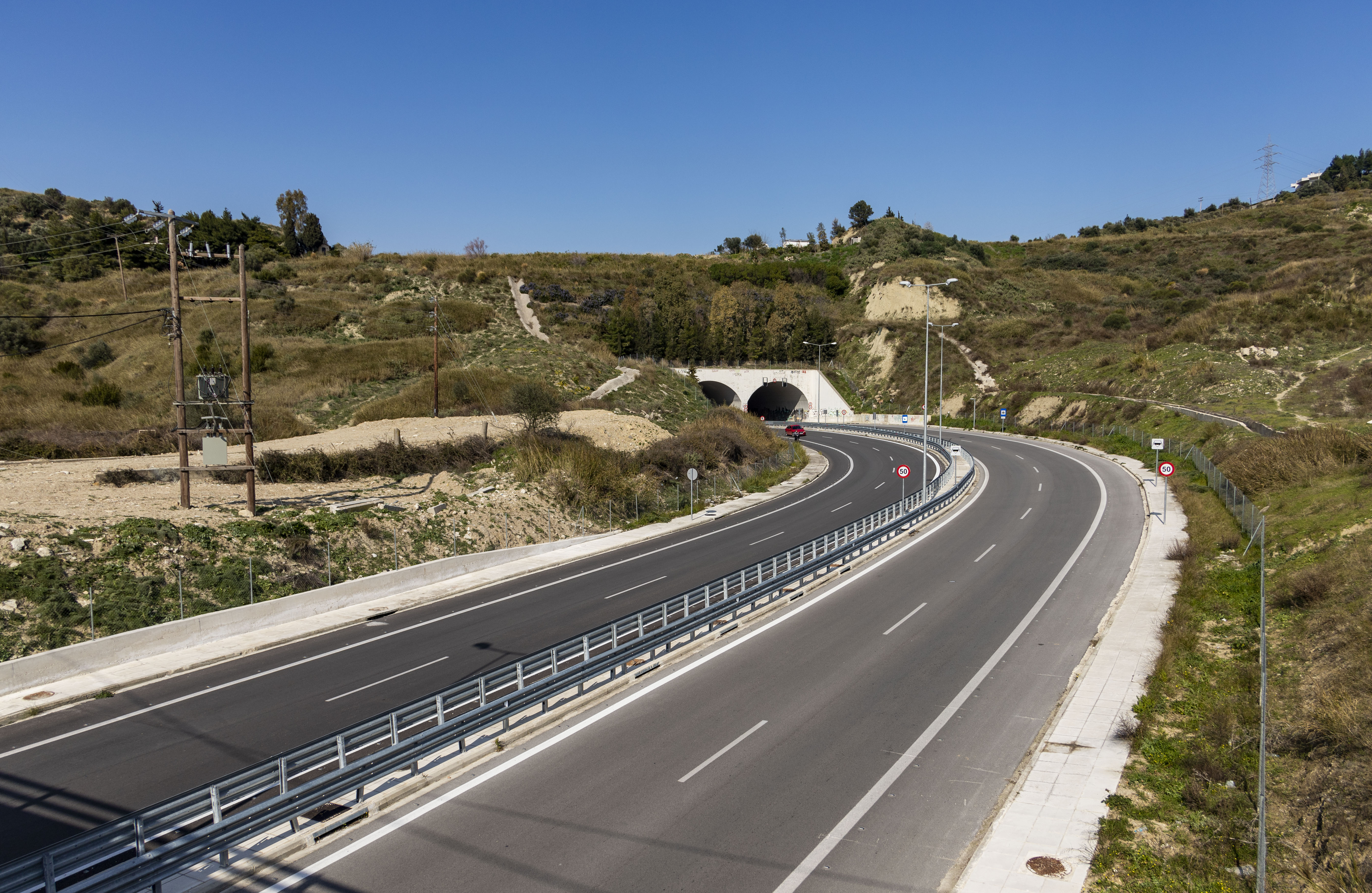 Patras' short bypass, Aroi tunnel.